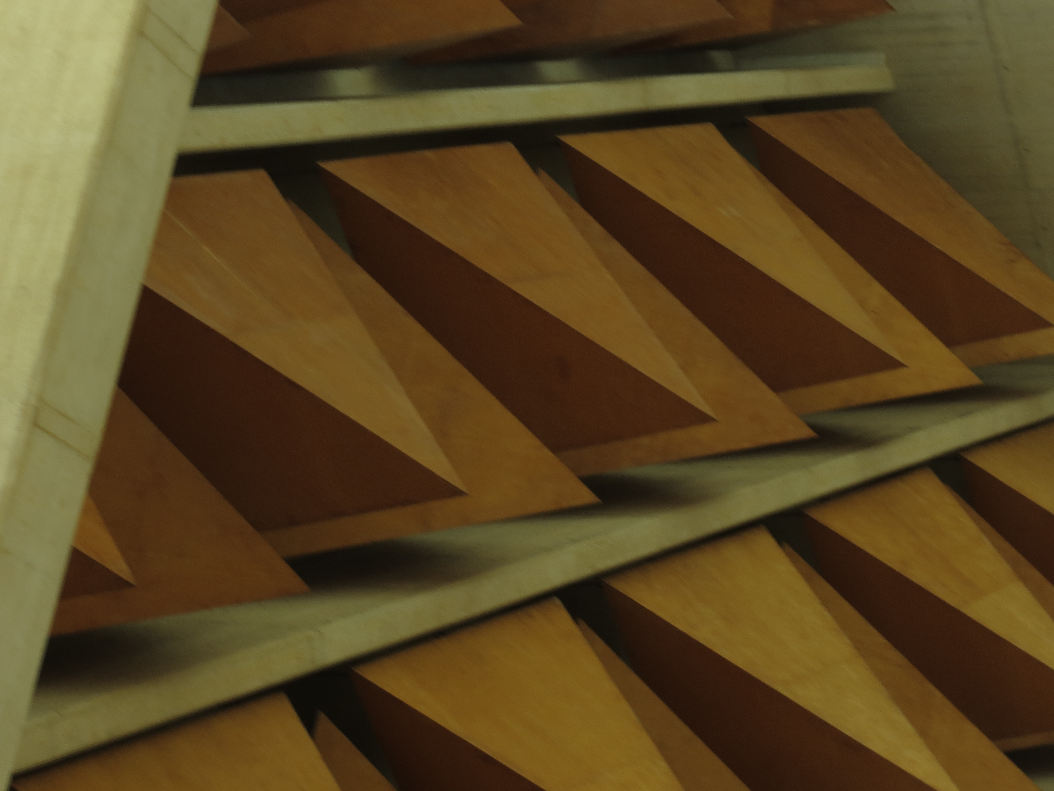 Clifton Cathedral, Clifton Park, Bristol BS8 3BX